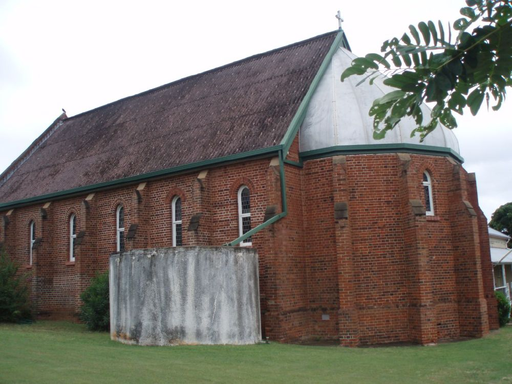 St Mary's Anglican Church, Church hall and Bell Tower (2009) - rear view